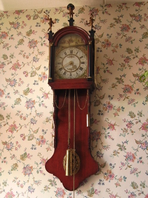 Frisian tale clock from arround 1860